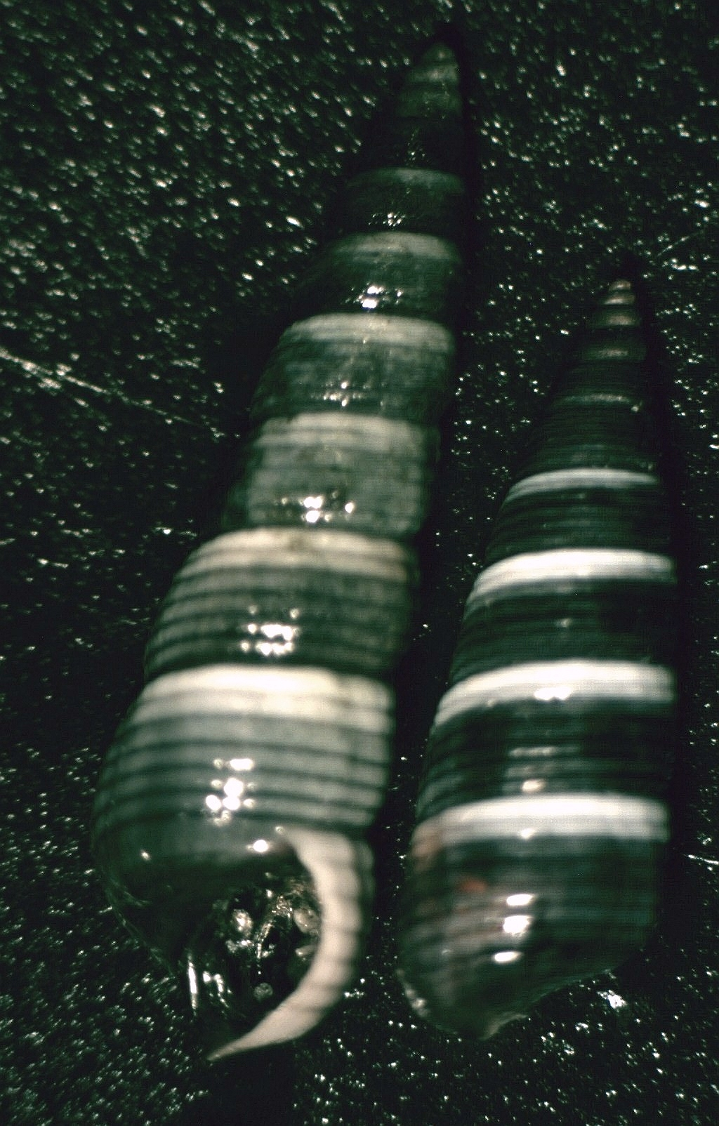 Batillaria estuarina R. Tate, 1893, a sea snail in the family Batillariidae; South Australia